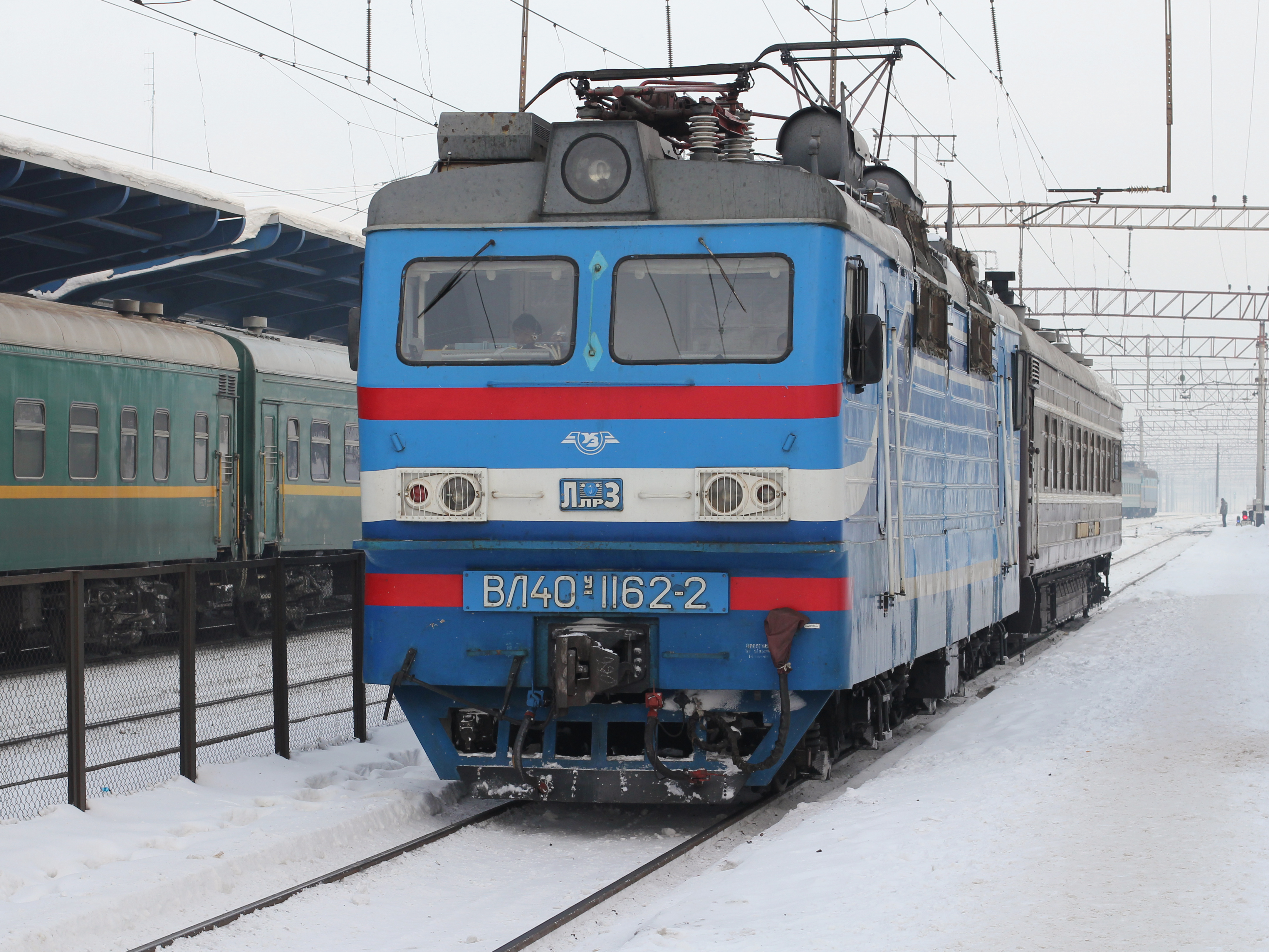 Electric locomotive VL40U-1162-2 in Vinnitsa railway station. This locomotive has been made 03.1976.